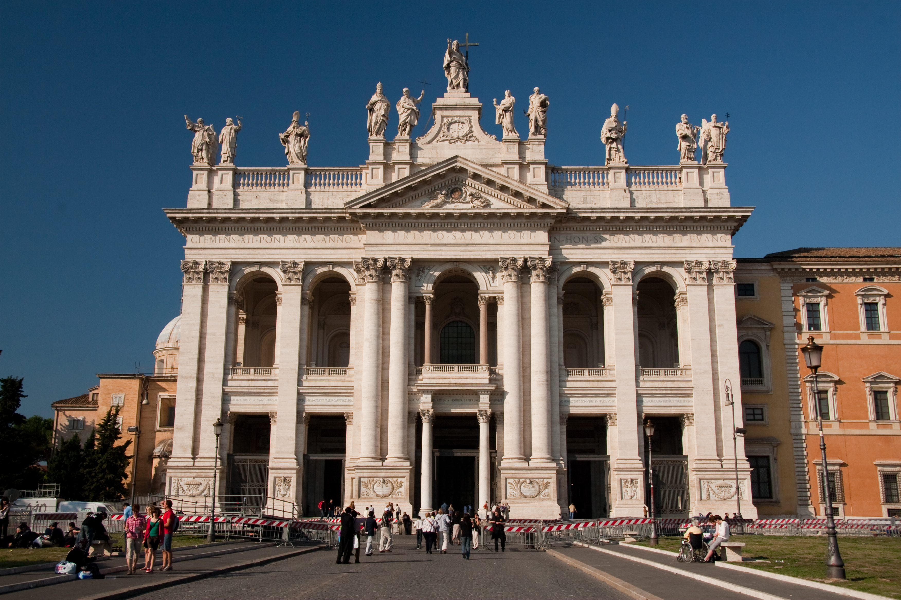 San Giovanni in Laterano is the cathedral church of Rome. 41°53′9.26″N 12°30′22.16″E / 41.8859056°N 12.5061556°E